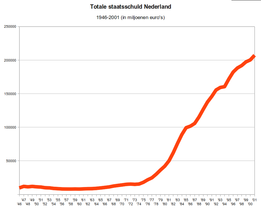 Progress of total Dutch government debt from 1946 until 2001 (in million euros).